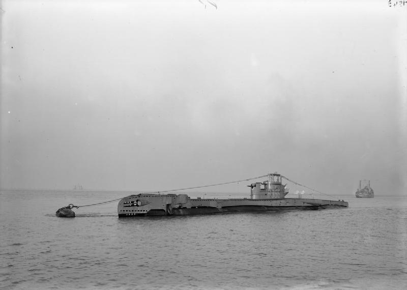 British T class submarine HMSM THERMOPYLAE moored.